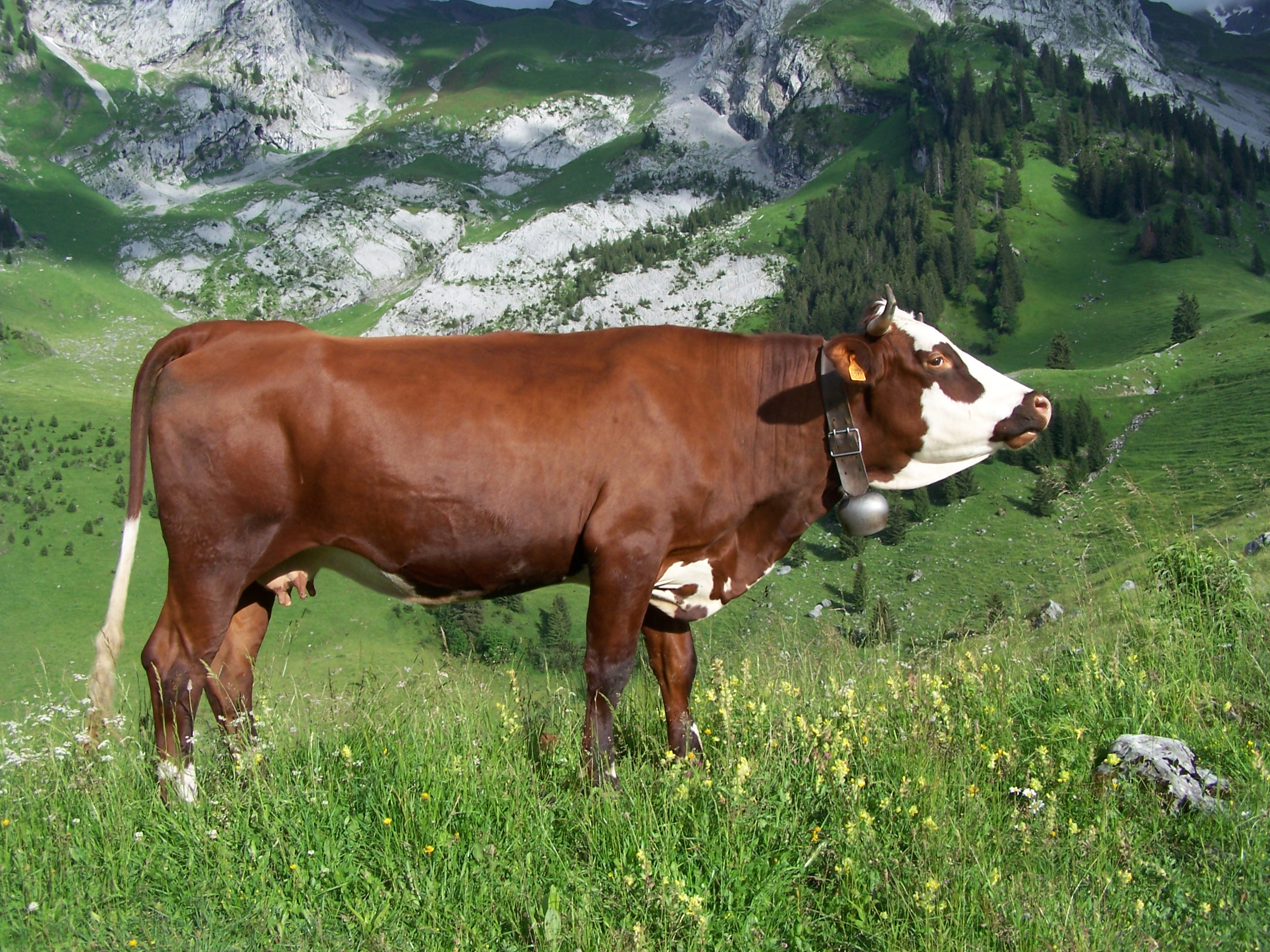 An abondance cow profile in the Aravis mountain (France)